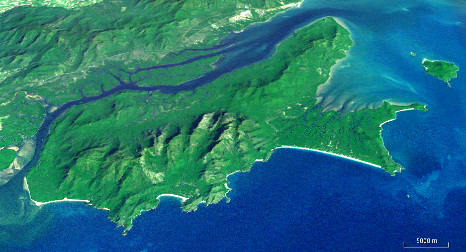 Hinchinbrook Island looking west, no vertical exaggeration.